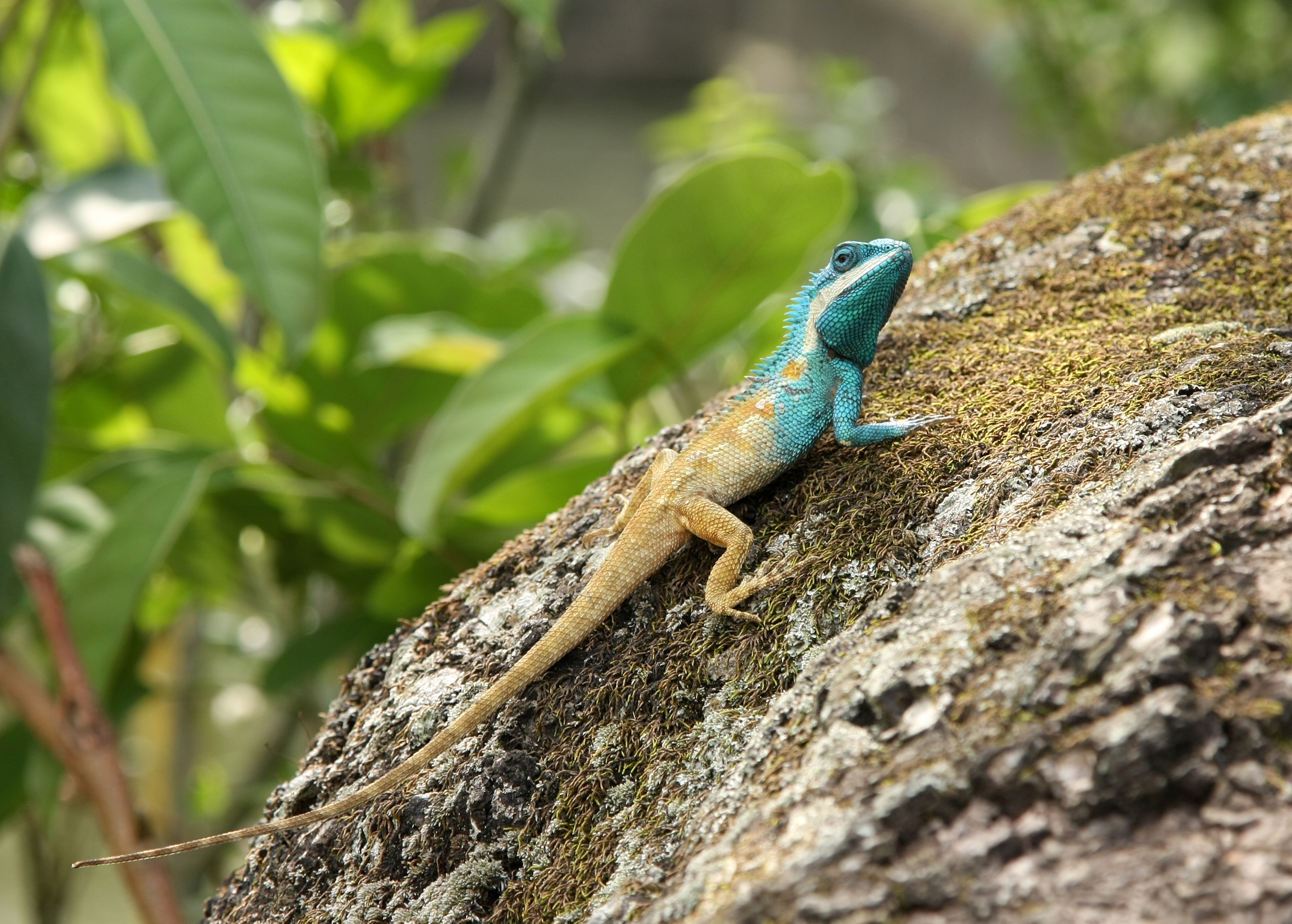 A Blue-crested lizard (Calotes mystaceus) in Keibul Lamjao National Park, Bishnupur district, Manipur, India.